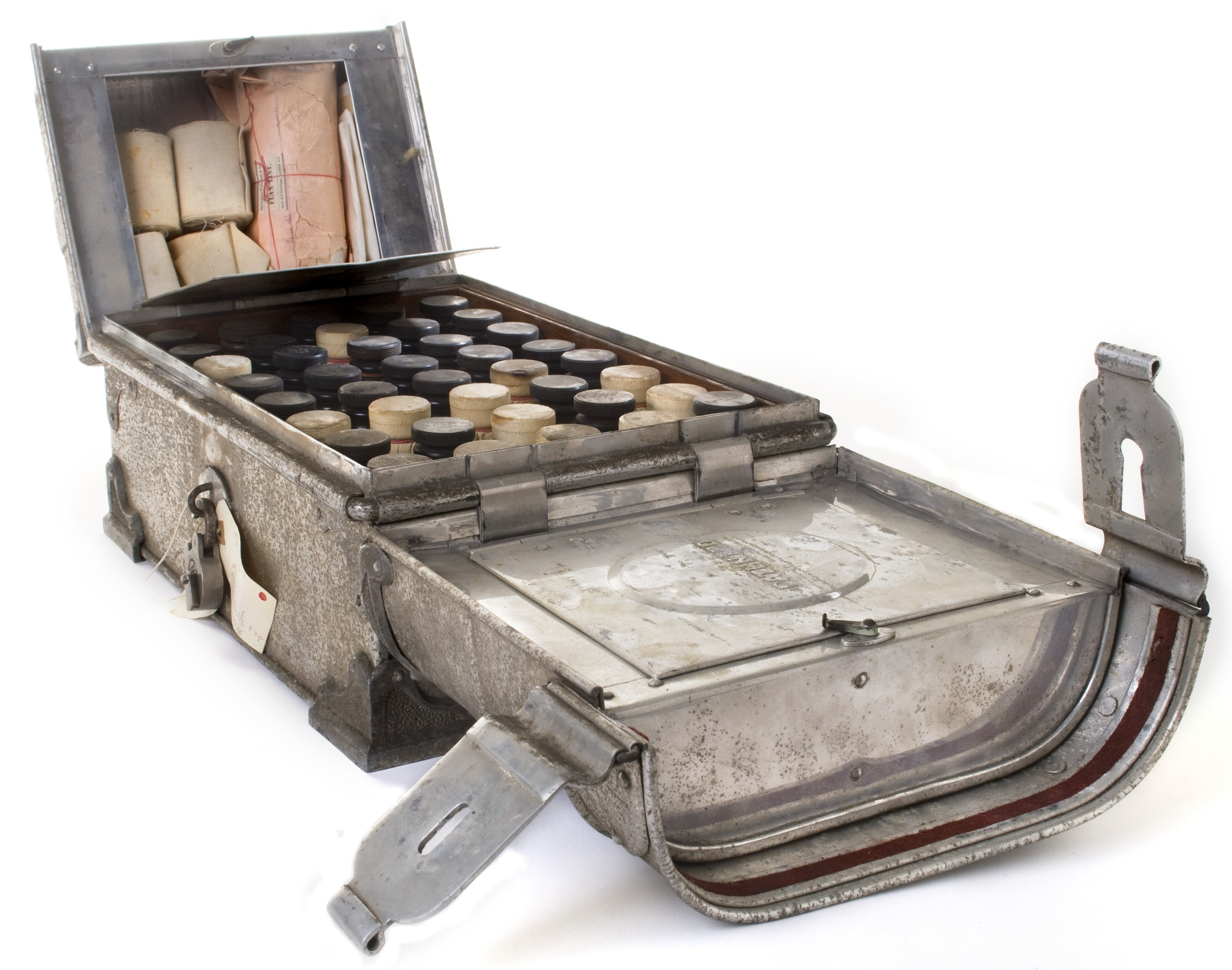 Medicine Chest supplied by Burroughs Wellcome & Co., which accompanied the 1901 National Antarctic Expedition 1901